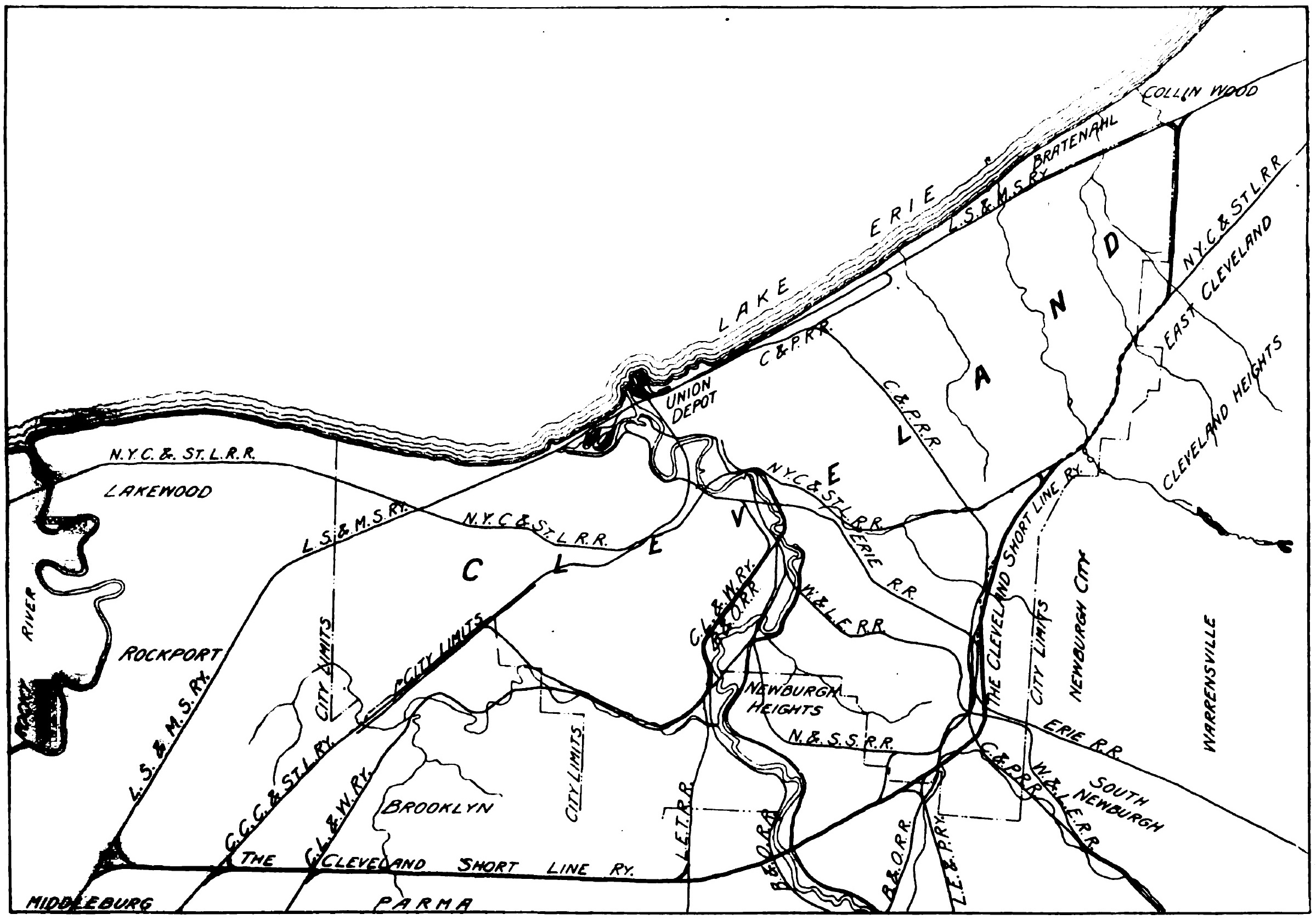 Map of railroads (including the under-construction Cleveland Short Line Railway) in Cleveland, Ohio, in the United States in 1907.